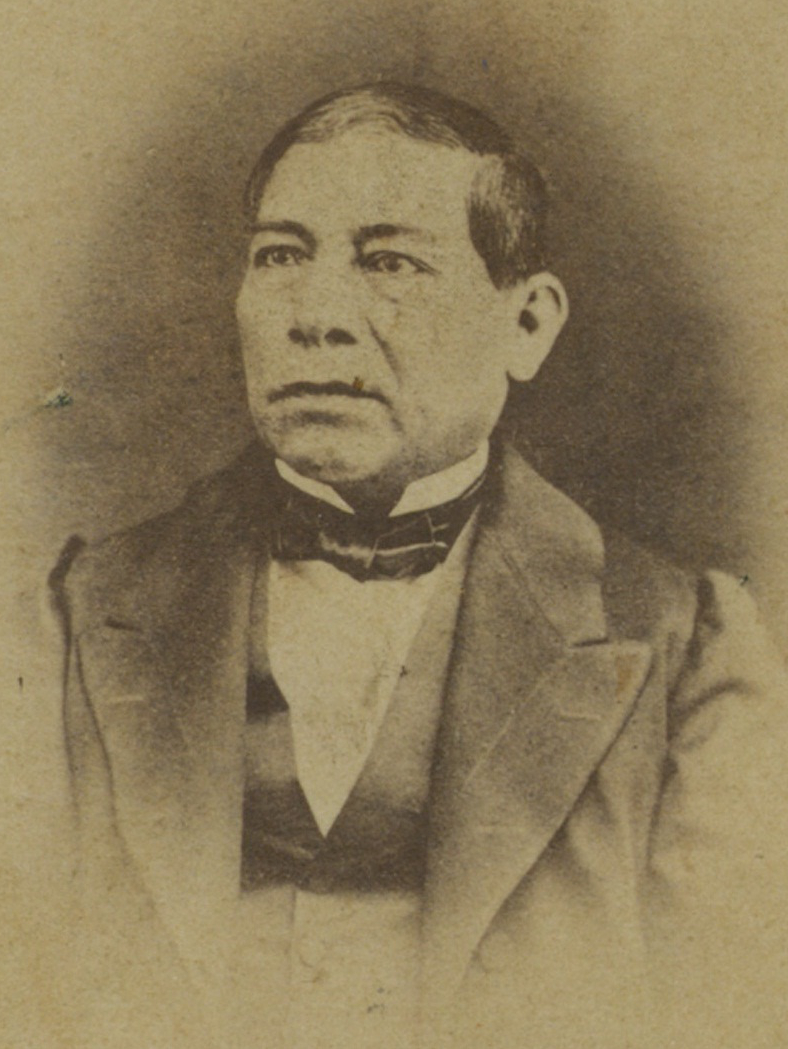 Benito juarez circa 1868